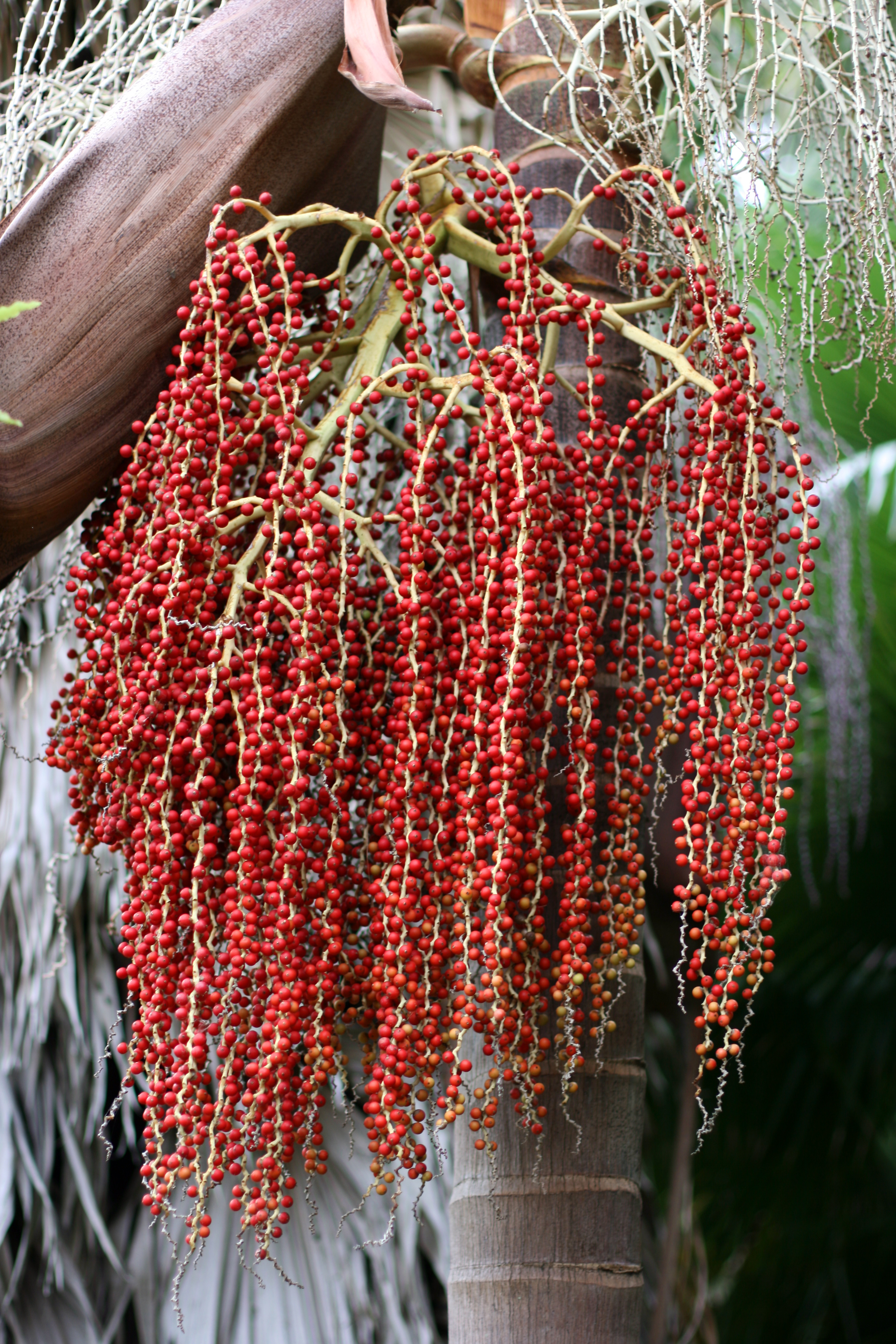 Archontophoenix cunninghamiana, ripe seeds, Alberon Park, Parnell, Auckland, New Zealand.